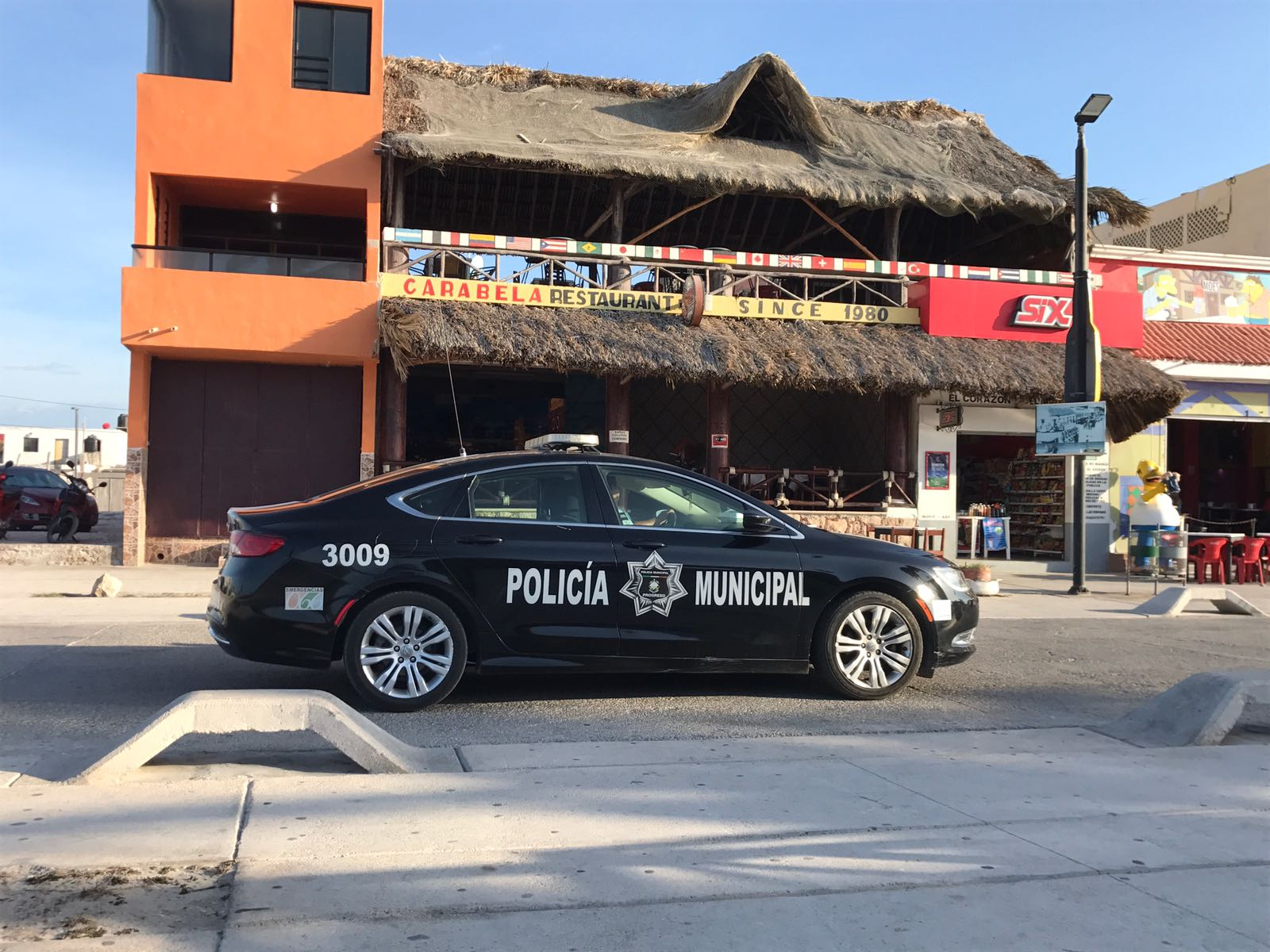 Chrysler 300 squad-car of the Progreso Municipal Police Department, state of Yucatan, Mexico.